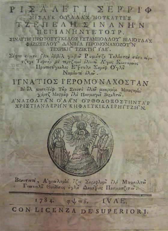 Title page of a book printed in "Karamanlidika" (Turkish written in the Greek script), printed in Venice, 1784